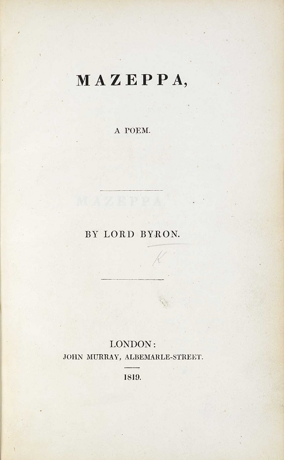 Mazeppa, A Poem by Lord Byron, first edition title page, John Murray, London, Albemarle-Street, 1819.